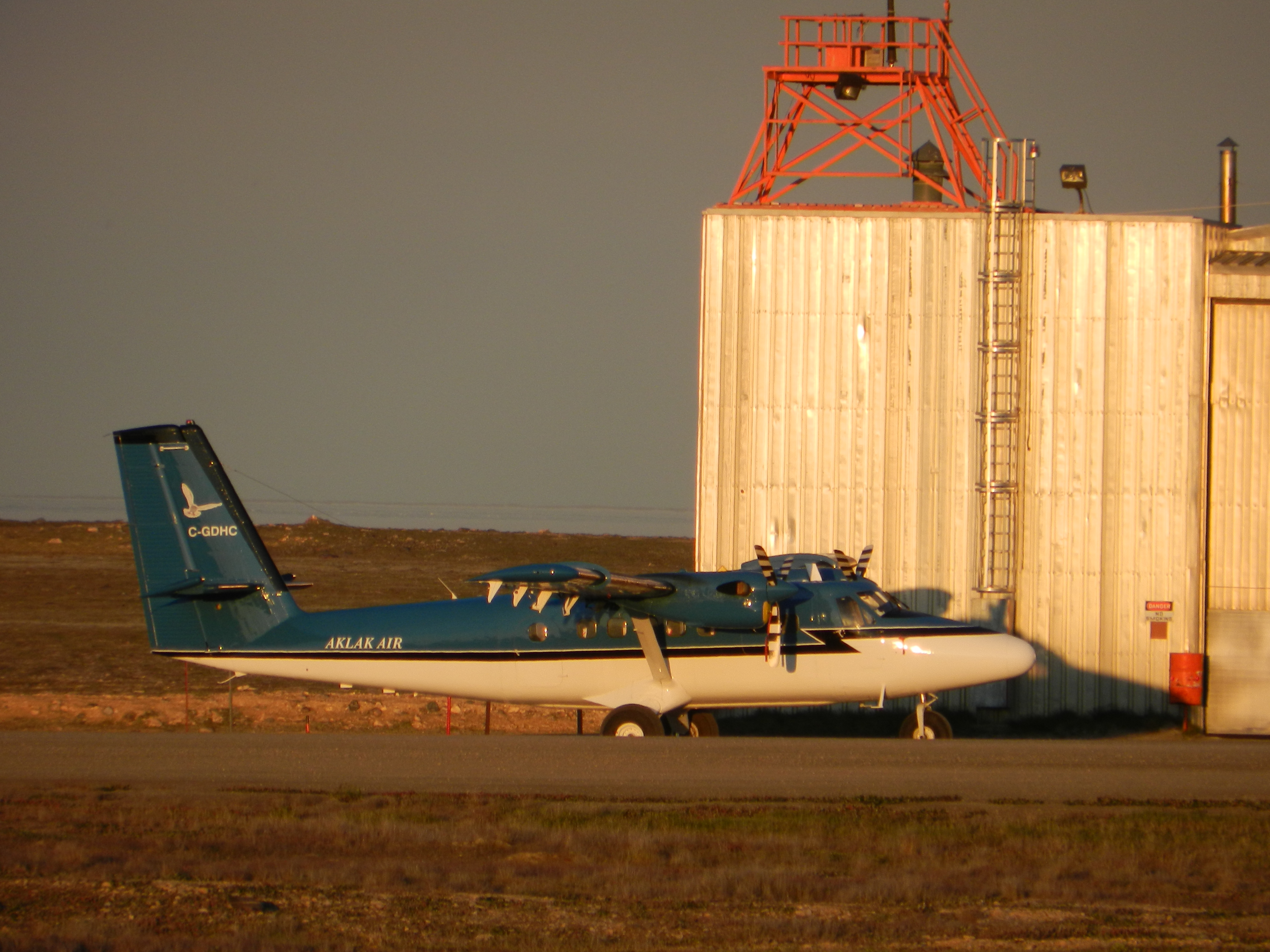 C-GDHC Aklak Air DHC6 at the Dewline Hangar in Cambridge Bay